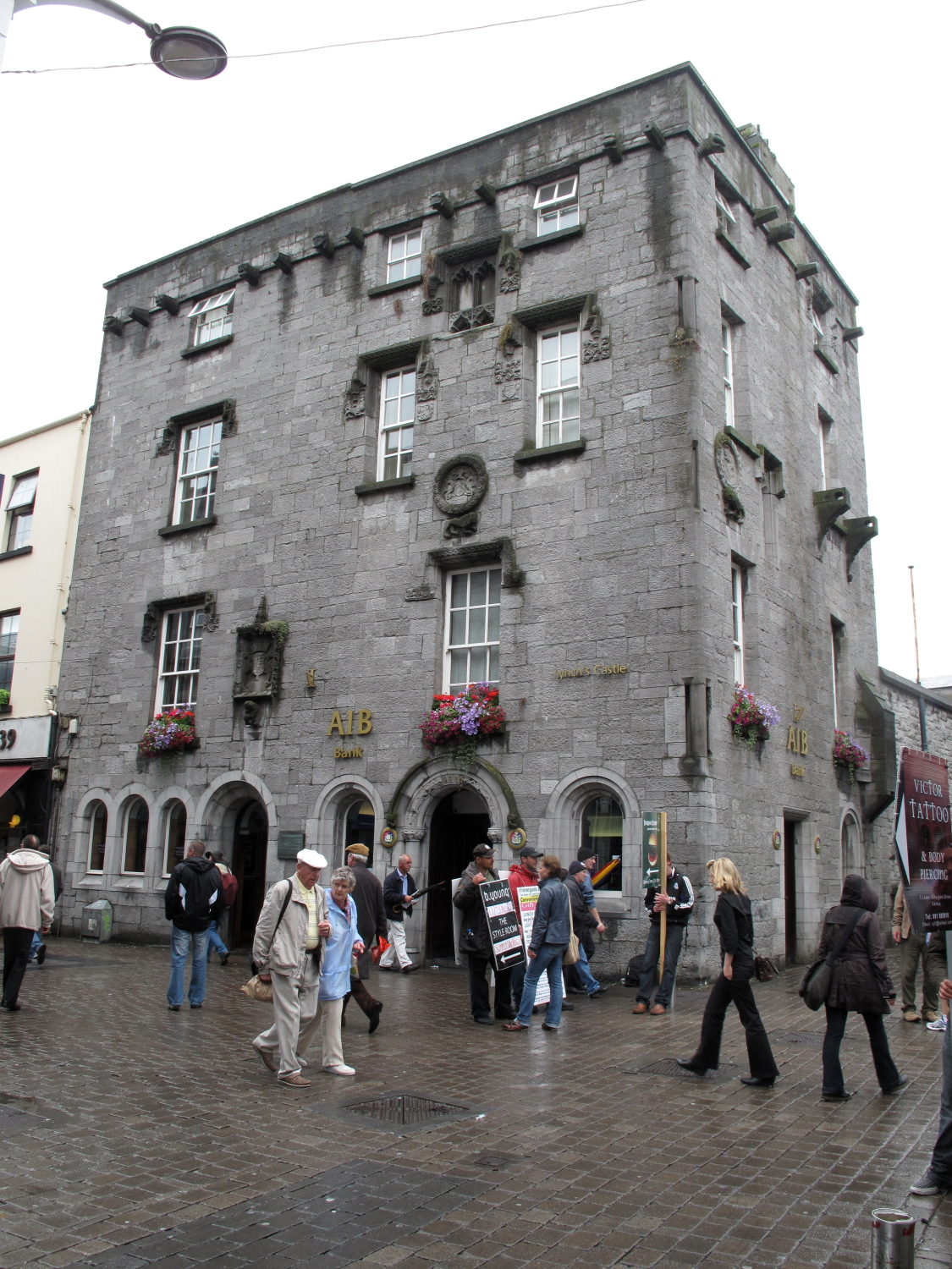 Galway - Shop Street - Lynch's Castle